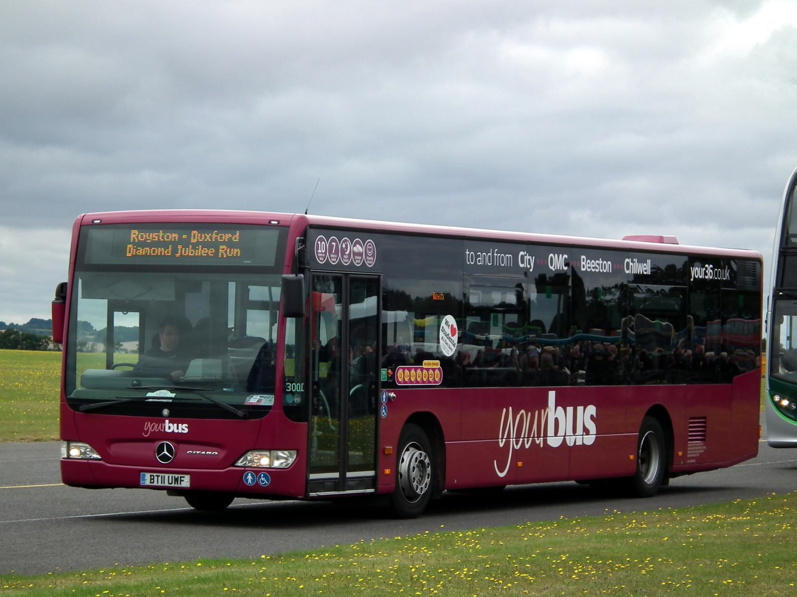 Yourbus (BT11 UWF), a Mercedes-Benz Citaro, seen at Showbus 2012.